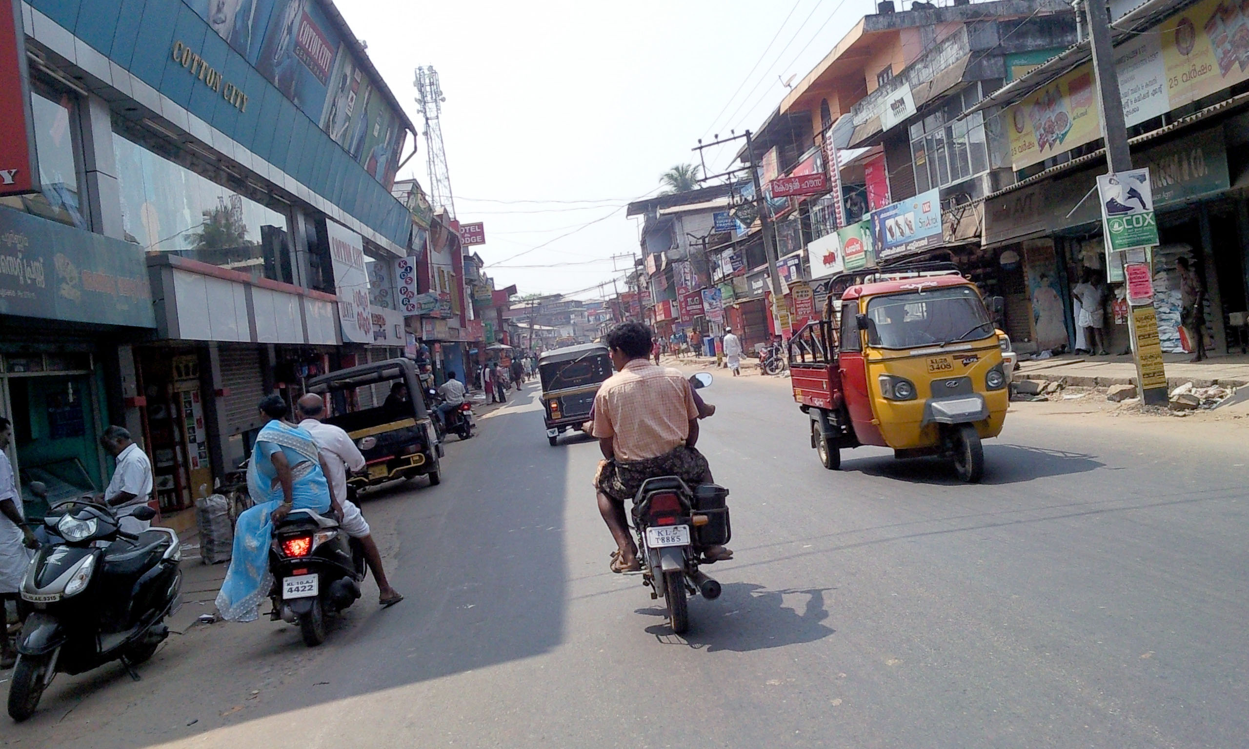 Edakkara town without traffic